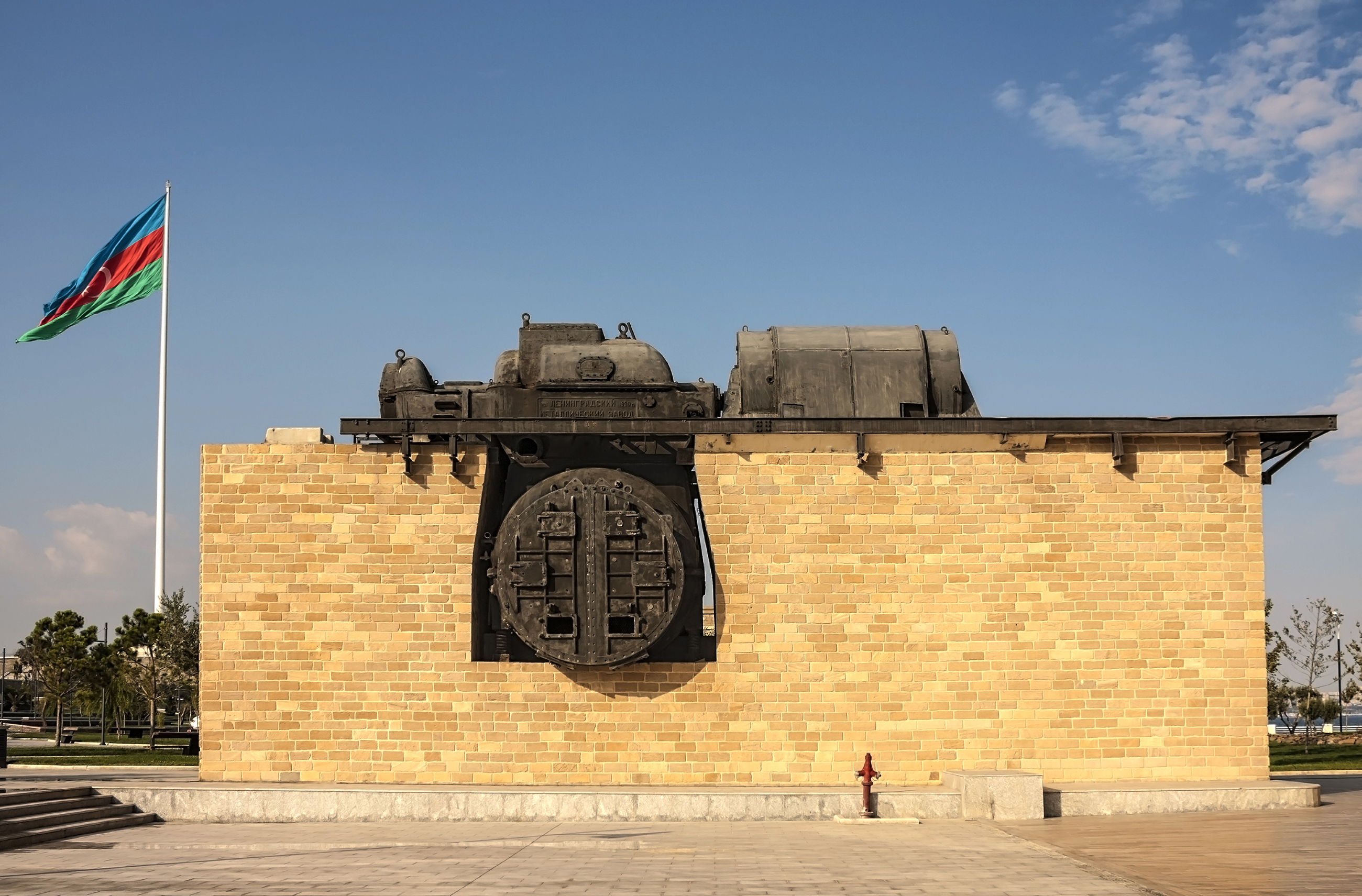 Exhibit of the power station of state district power station of Krasin